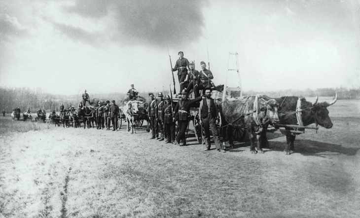 Photograph, Troops on the march, North West Rebellion, Qu'Appelle Valley, SK, 1885, Oliver B. Buell, Silver salts on paper - Albumen process - 12 x 17 cm